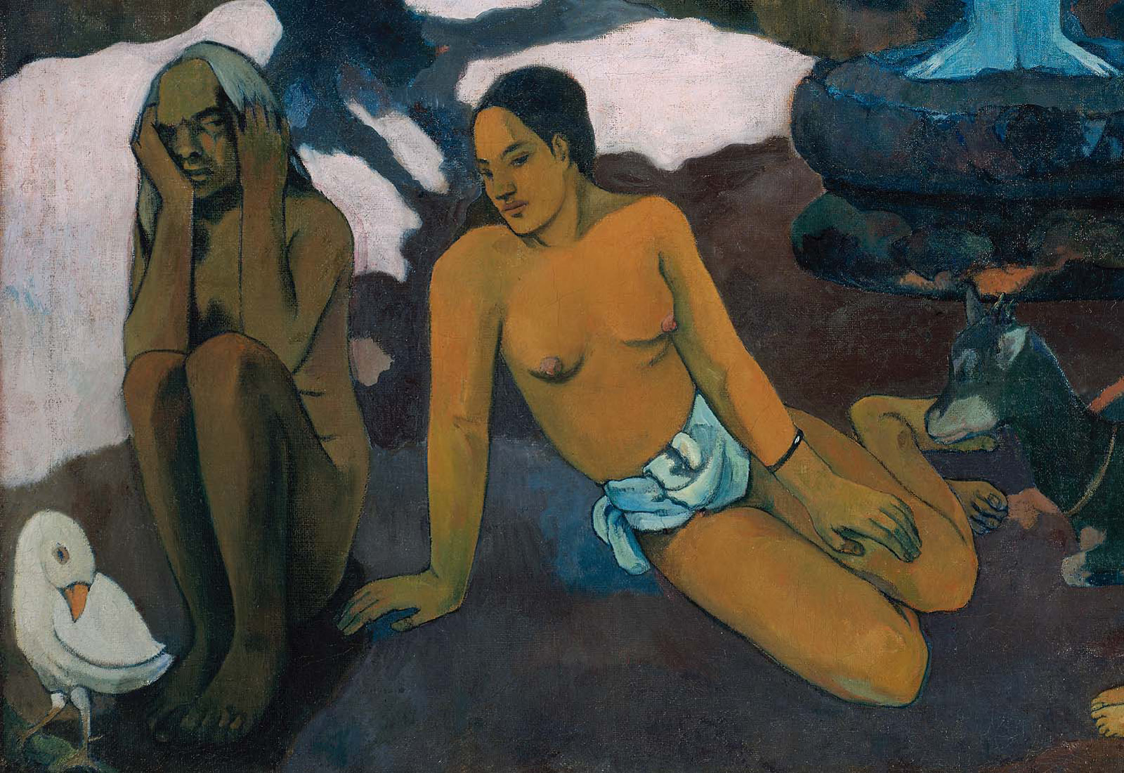 Detail from Where Do We Come From? What Are We? Where Are We Going?